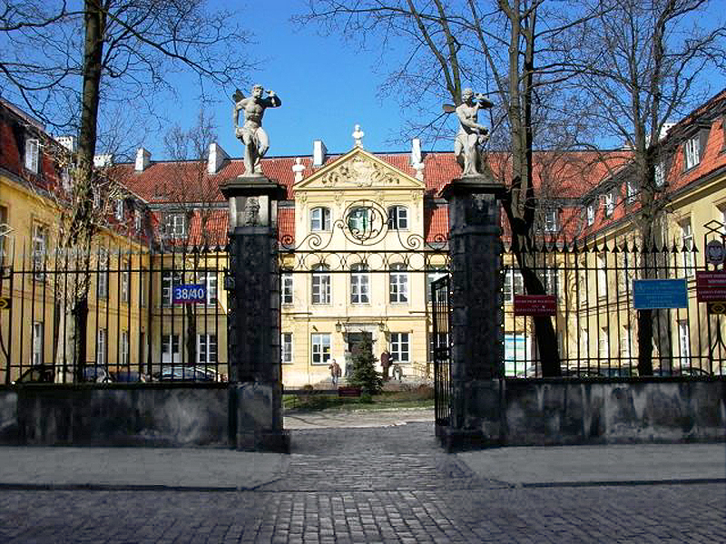 Tepper-Duckert Palace in Warsaw, Długa Street. Author: Zbigniew Strucki